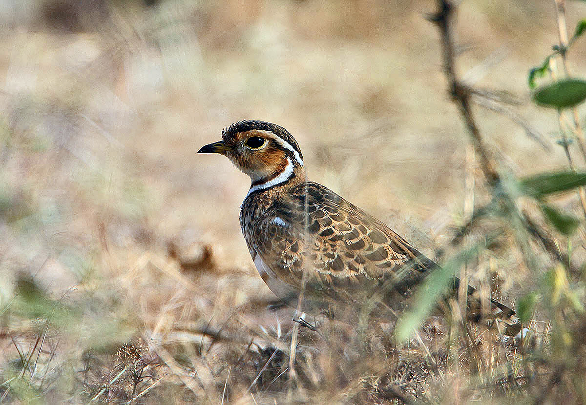 A Three-banded Courser near Lake Baringo, Kenya.